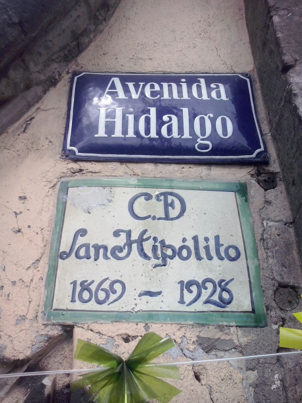 Placa del Templo de San Hipólito